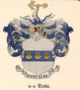 Coat of arms of La Trobe family.